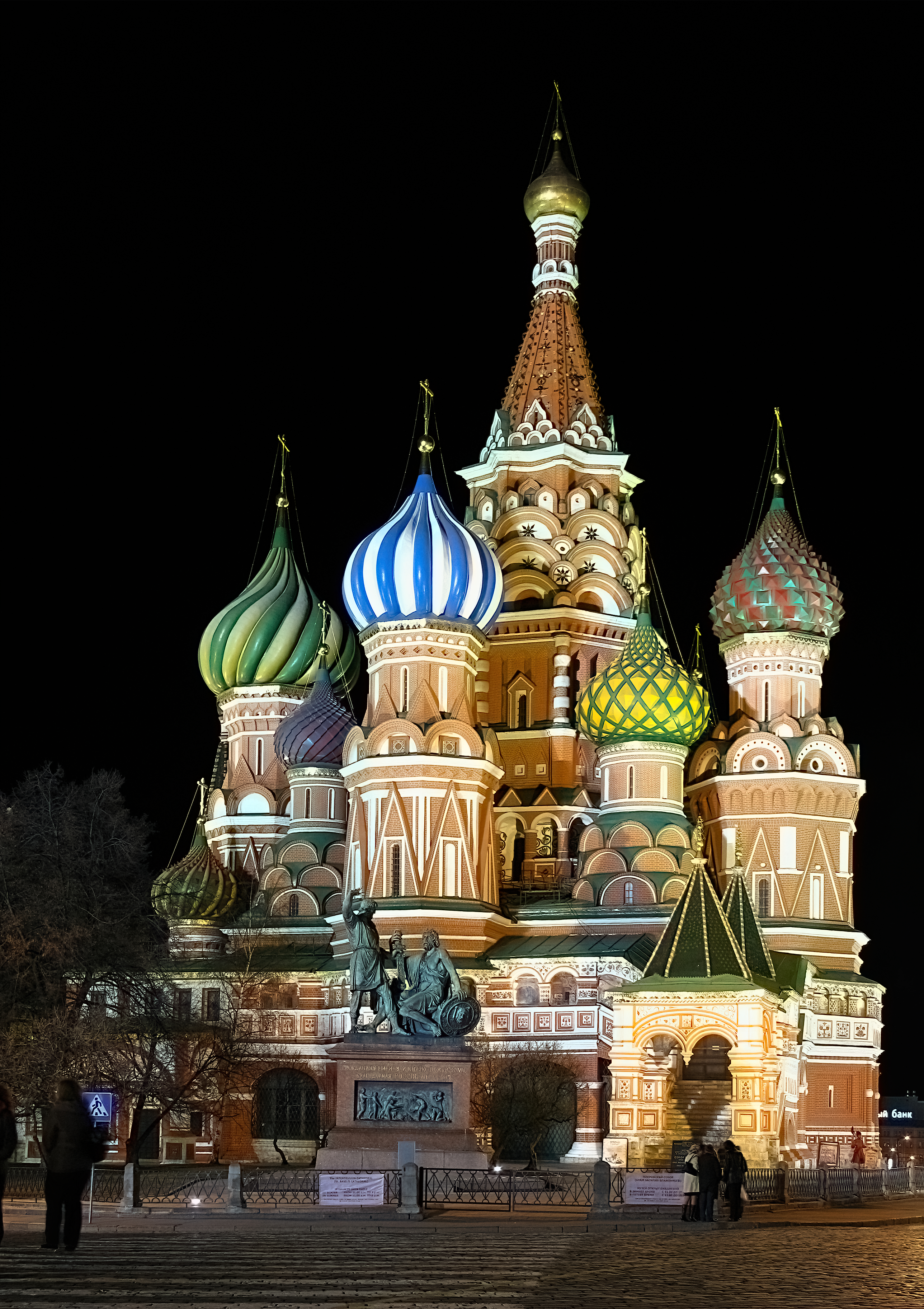 Saint Basil's Cathedral in Moscow.